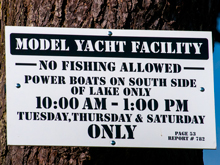 Replacement sign, North side Spreckels Lake, Golden Gate Park, San Francisco, CA, USA